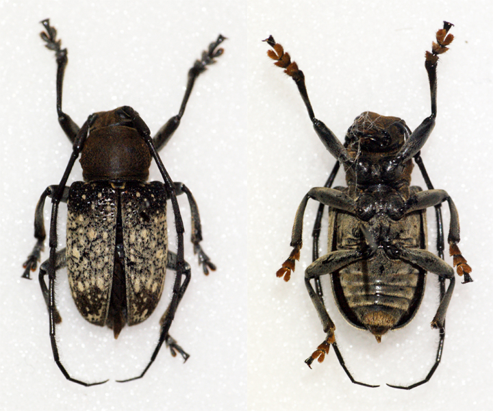 Thomson,1858 Sex: Male Data: 10-2013 - Mbalmayo - Cameroon Size: ?